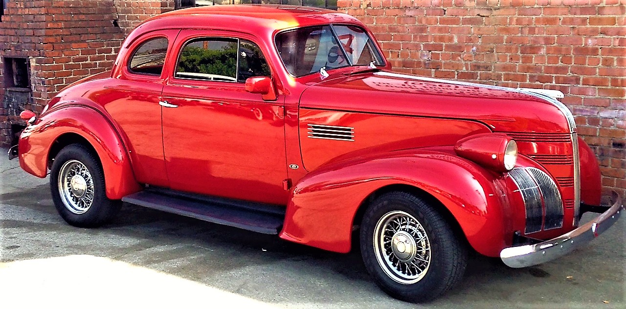 Pontiac Coupe